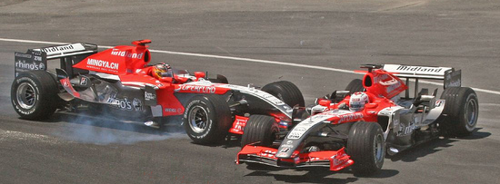 The MF1 Racing drivers, Christijan Albers and Tiago Monteiro, collide on the first lap of the 2006 Canadian Grand Prix.